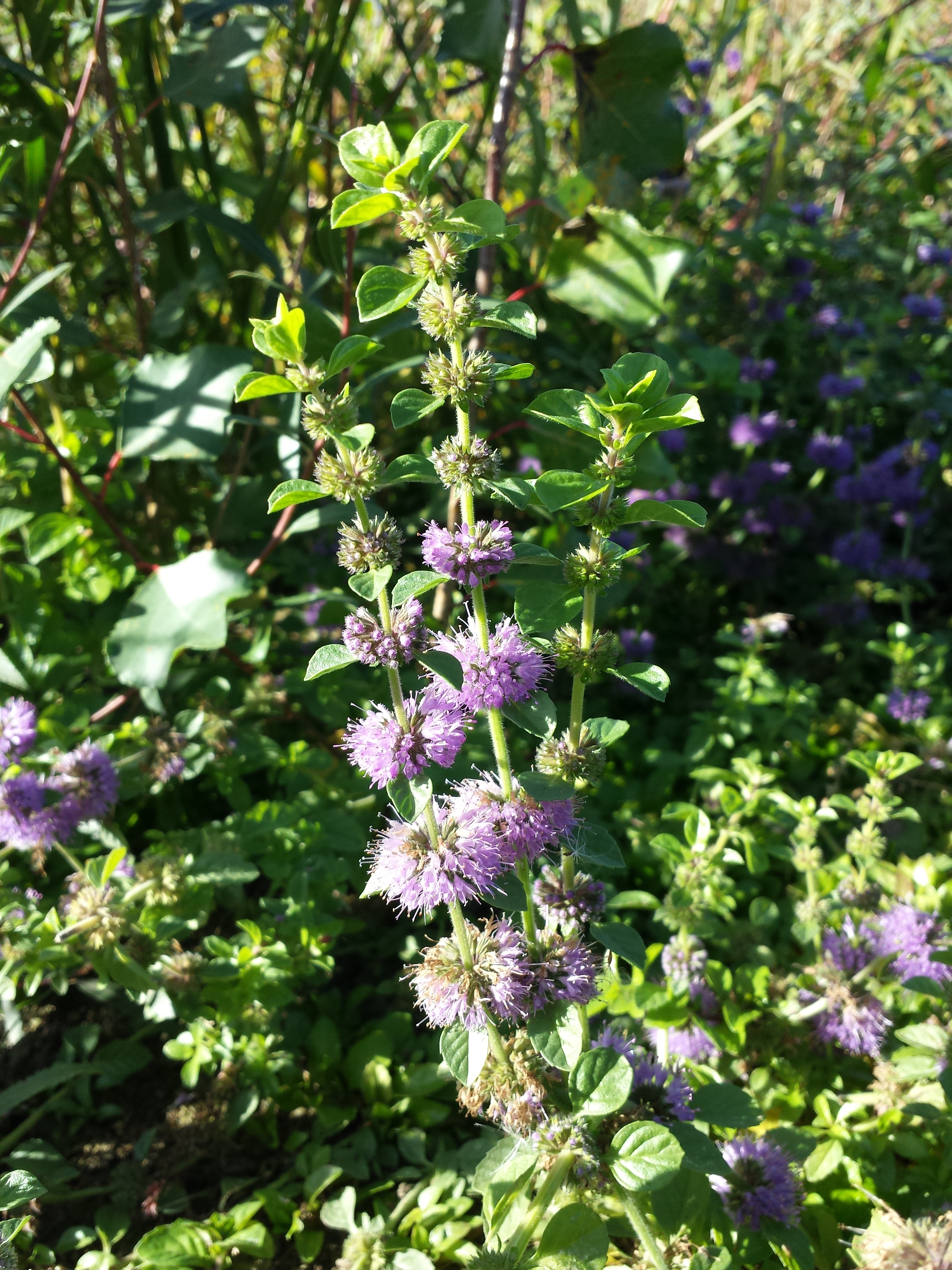 Inflorescences Taxonym: Mentha pulegium ss Fischer et al. EfÖLS 2008 ISBN 978-3-85474-187-9 Location: pond near Michelstetten, district Mistelbach, Lower Austria - ca. 250 m a.s.l. Habitat: shore of a pond